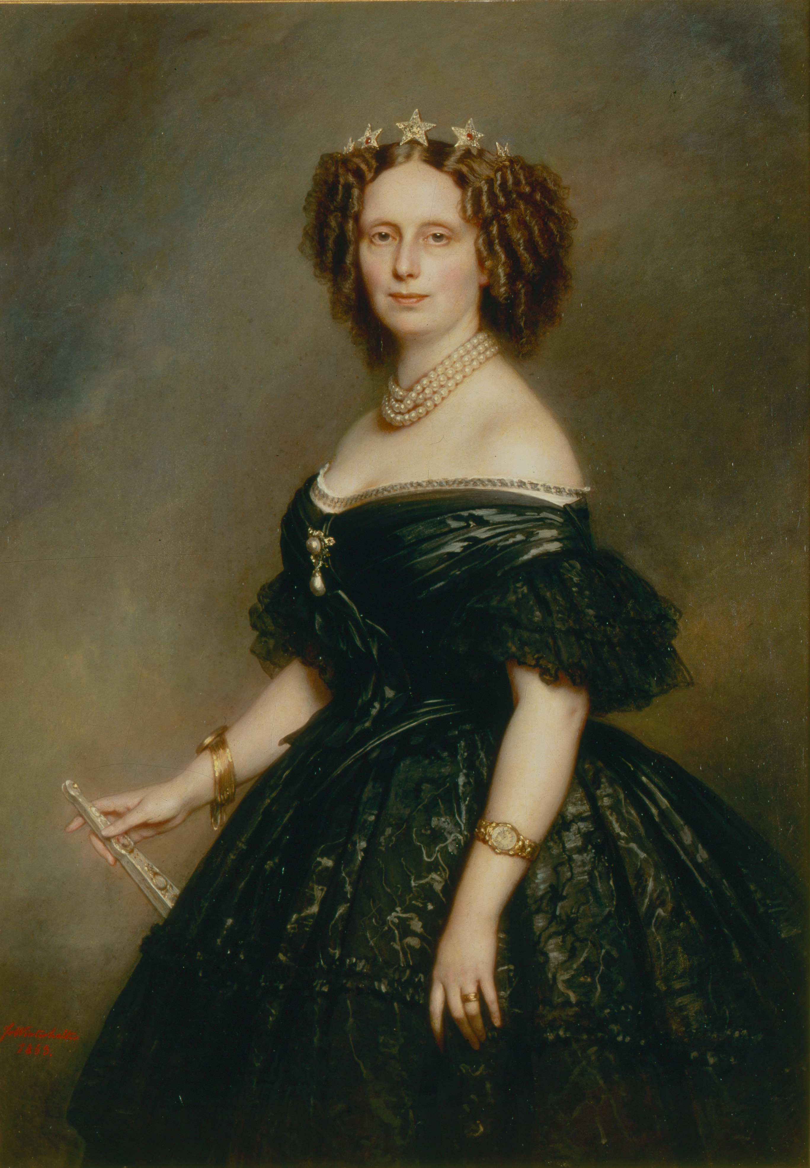 Portrait of Queen Sophie of Netherlands, born Sophie of Württemberg (1818-1877).